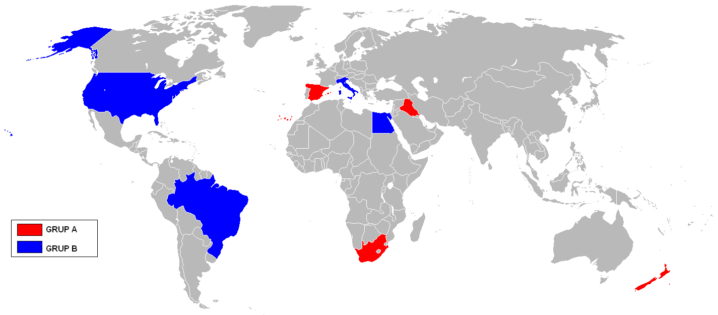 Map marking the countries which take part in the 2009 FIFA Confederations Cup